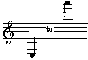 Illustration from 1911 Encyclopædia Britannica, article BASSET HORN. Compass of the basset horn (music written a fifth above actual sounds).